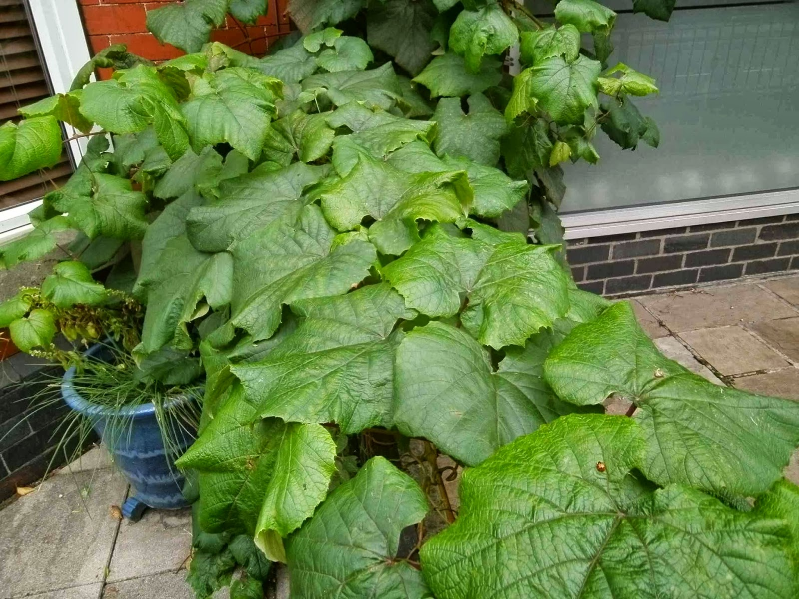 Vitis coignetiae (Japanese grape) leaves.